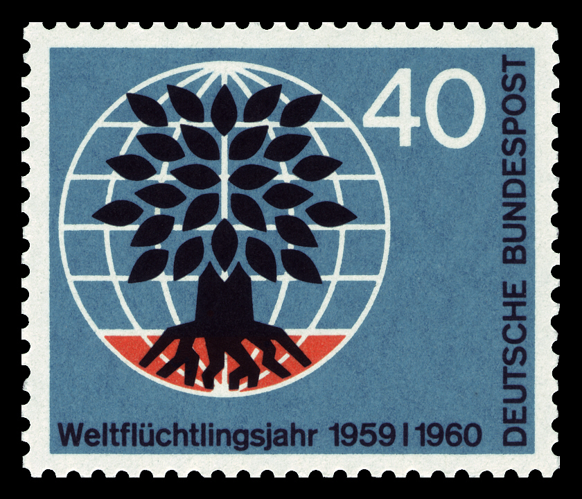 by the United Nations (UN) established World Refugee Year 1959/1960